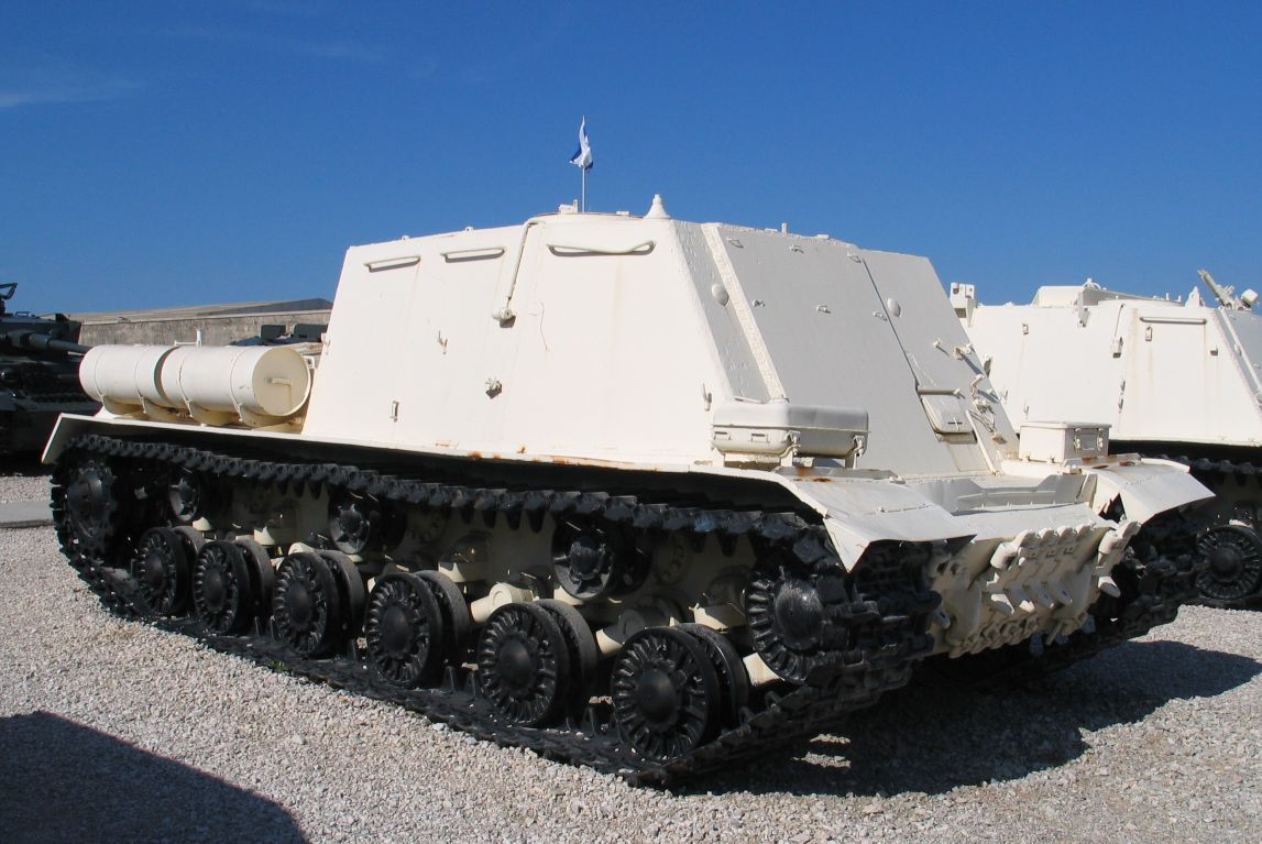 Description: ISU-122/152 with gun removed in Yad la-Shiryon Museum, Israel. Labeled as command vehicle. Possibly ISU-T tractor. Source: Photo by me, User:Bukvoed.